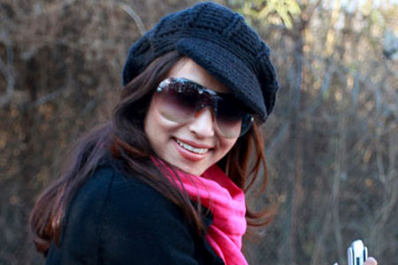 NIRUTA SINGH